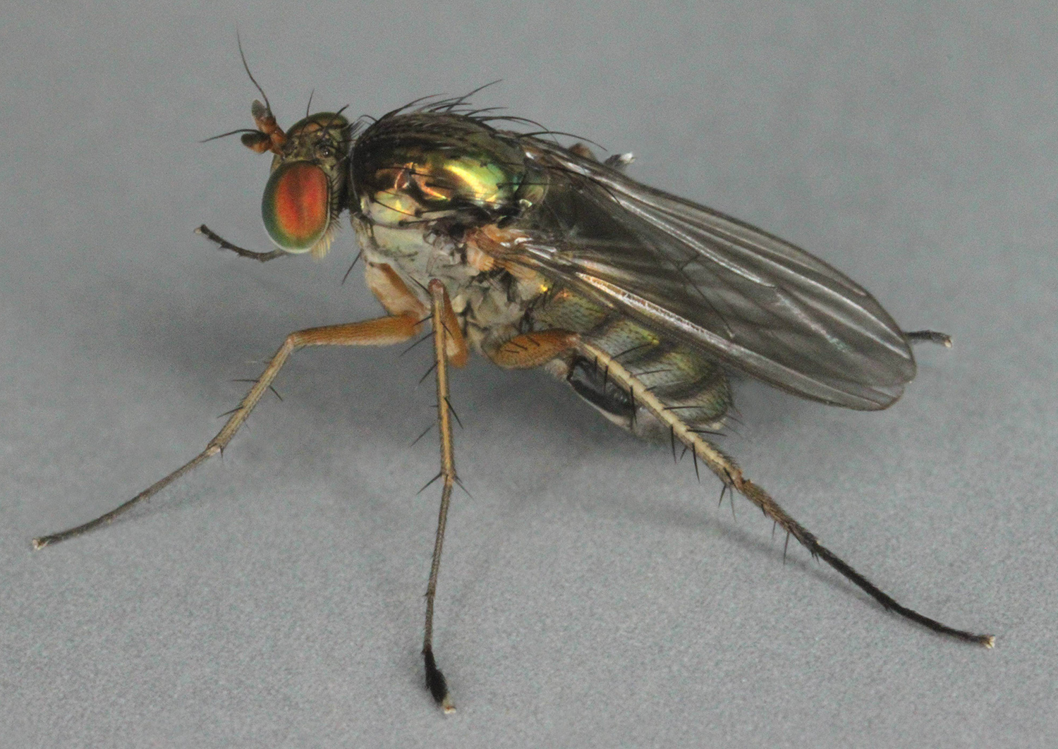 Dolichopus popularis, Trawscoed, North Wales, May 2011